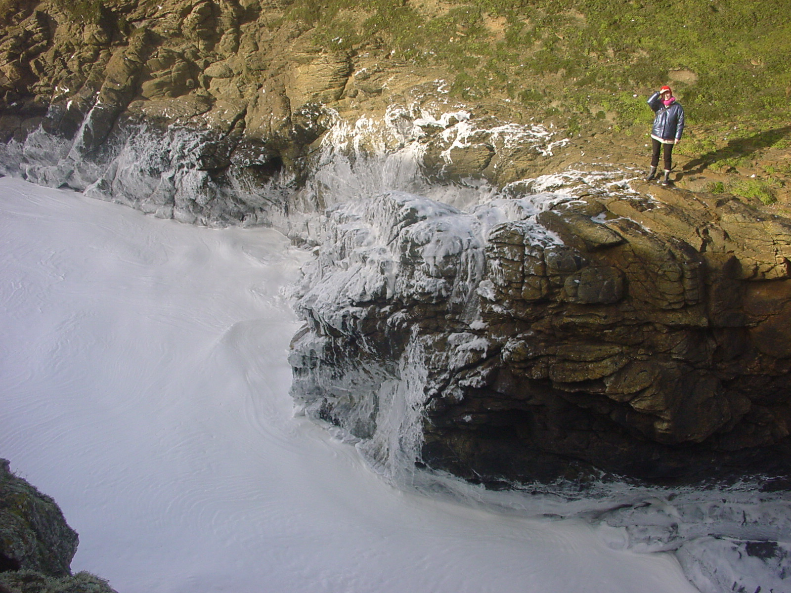 Sea in the storm, Near Quiberon, Morbihan, Bretagne, France